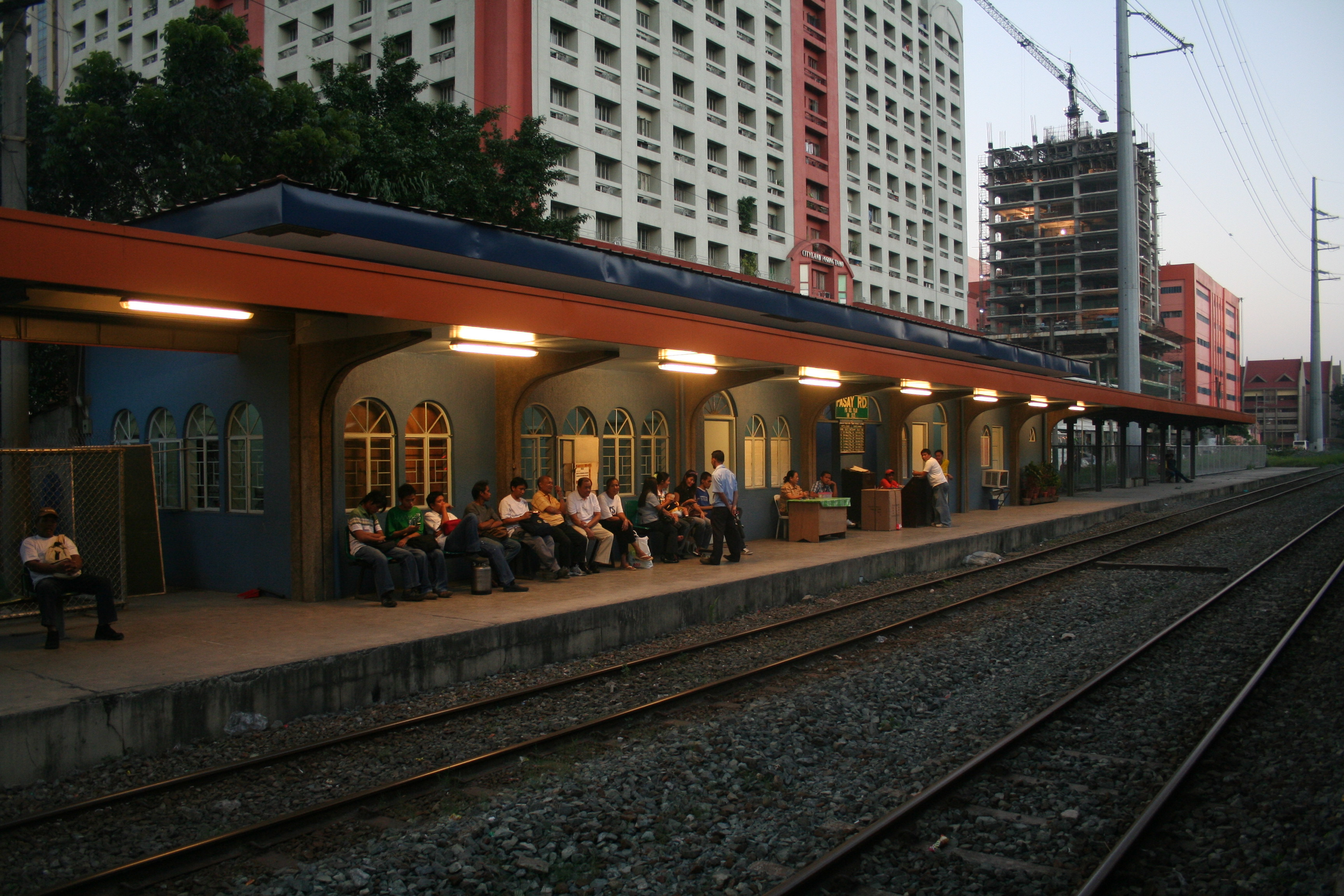 Trackside view of the entrance to Pasay Road railway station. The building is built on one of two of the station's original platforms, which are designed to accommodate locomotive-hauled trains. Further left (not visible) are raised platforms for the use of newer Philippine National Railways diesel multiple units.